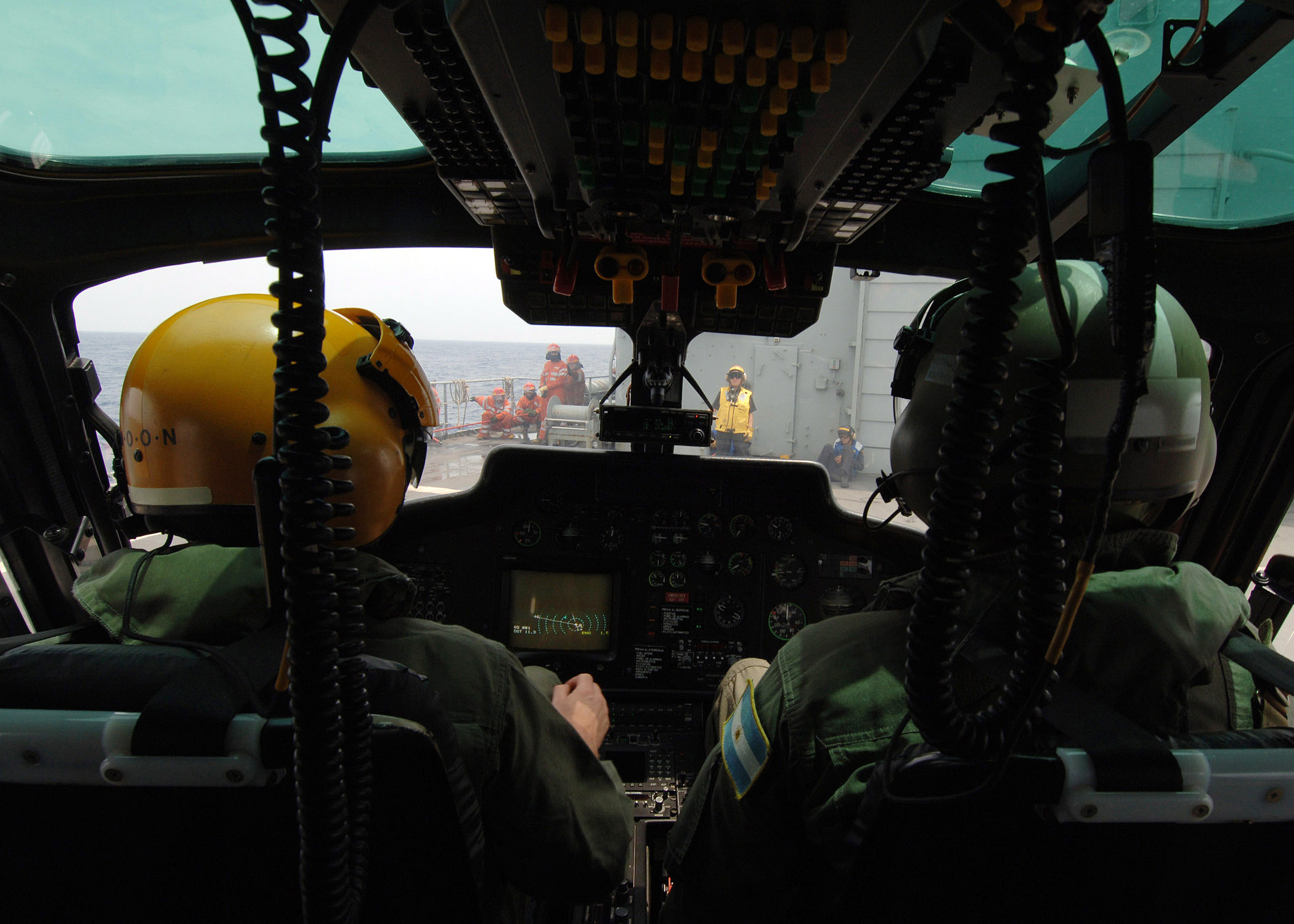 Atlantic Ocean (Oct. 23, 2005) - Pilots of an Argentinean AS 555 Fennec helicopter make final preparations prior to launch from the flight deck of the Spanish oilier SPS Marques De Le Ensenada (A 11). Naval forces from Argentina, Brazil, Spain, Uruguay and the United States are participating in UNITAS 47-06 Atlantic phase. This is a U.S. Southern Command-sponsored exercise that enhances friendly, mutual cooperation and understanding between participating navies by enhancing interoperability in naval operations among the nations of the Western Hemisphere. U.S. Navy photo by Photographer’s Mate 2nd Class Michael Sandberg (RELEASED)